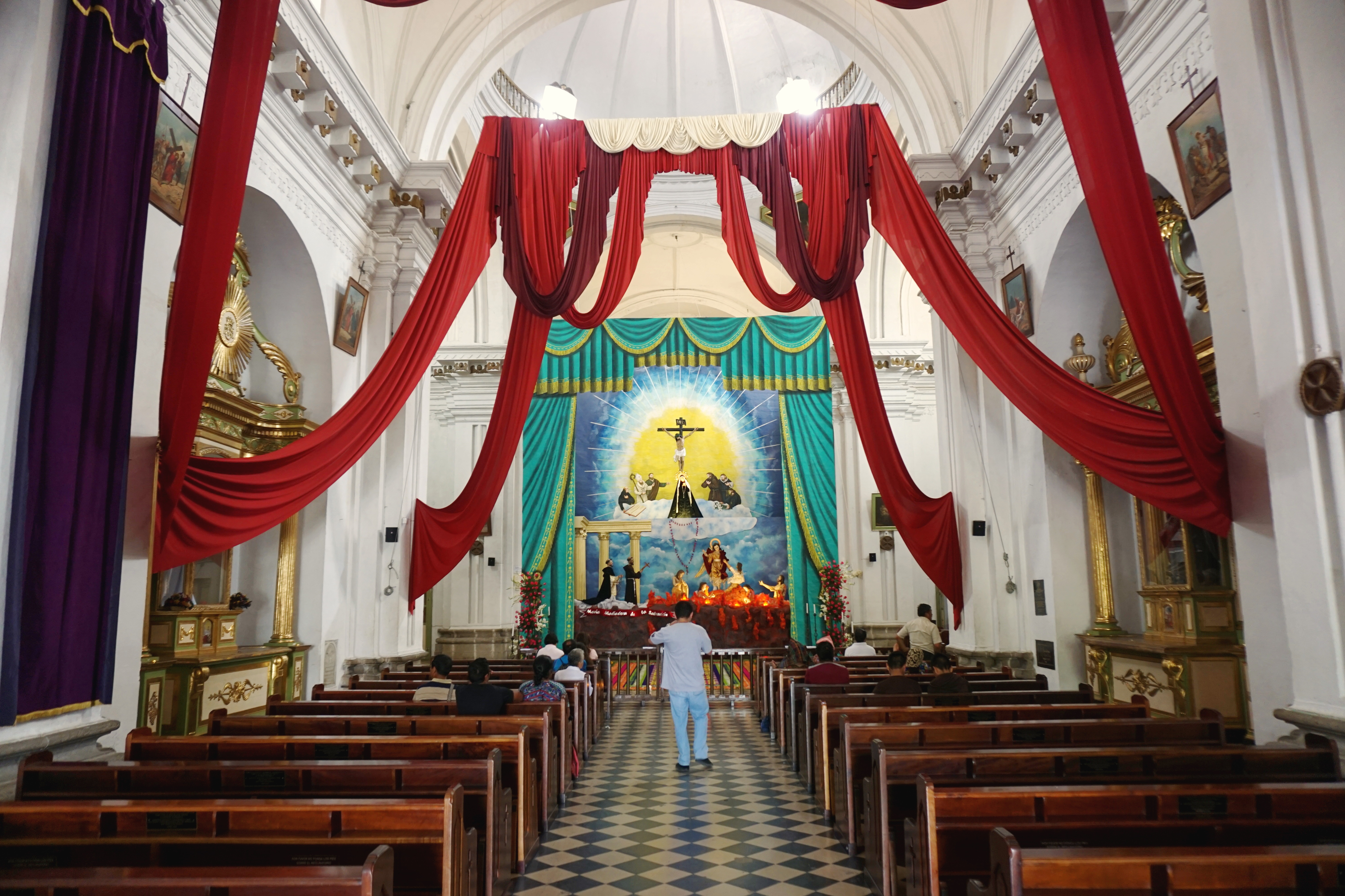 Decoration for Semana Santa in the church Escuela de Cristo in Antigua, Guatemala. Antigua's "carpets" are made of colorized sawdust and very famous throughout the country.